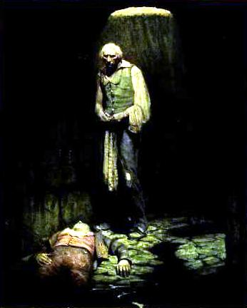 illustration of Les Miserables - Valjean and Marius in the sewers